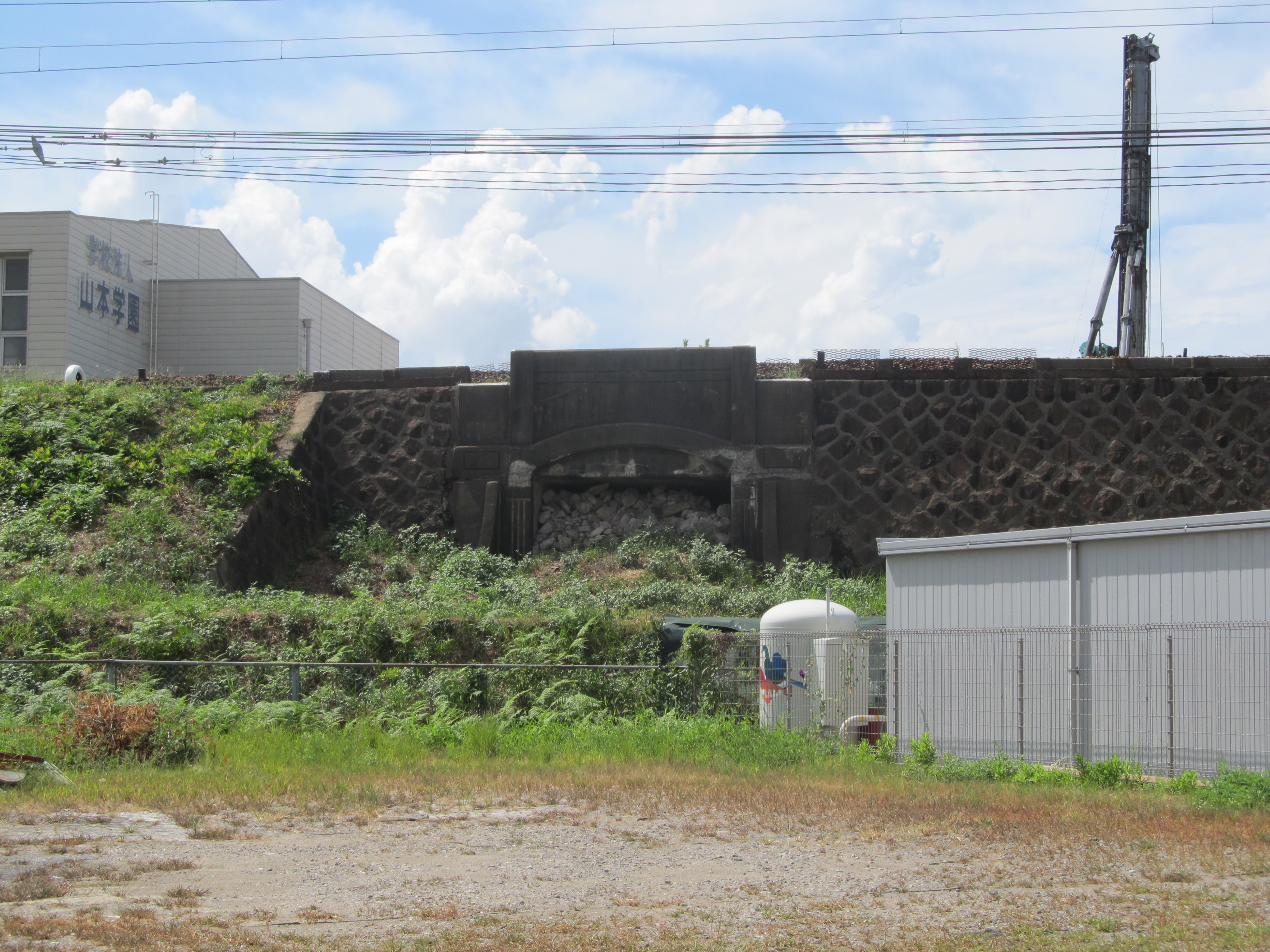 Nagoya Railroad Nagoya Main Line Higashi Chiryū (Abandoned) Station trace